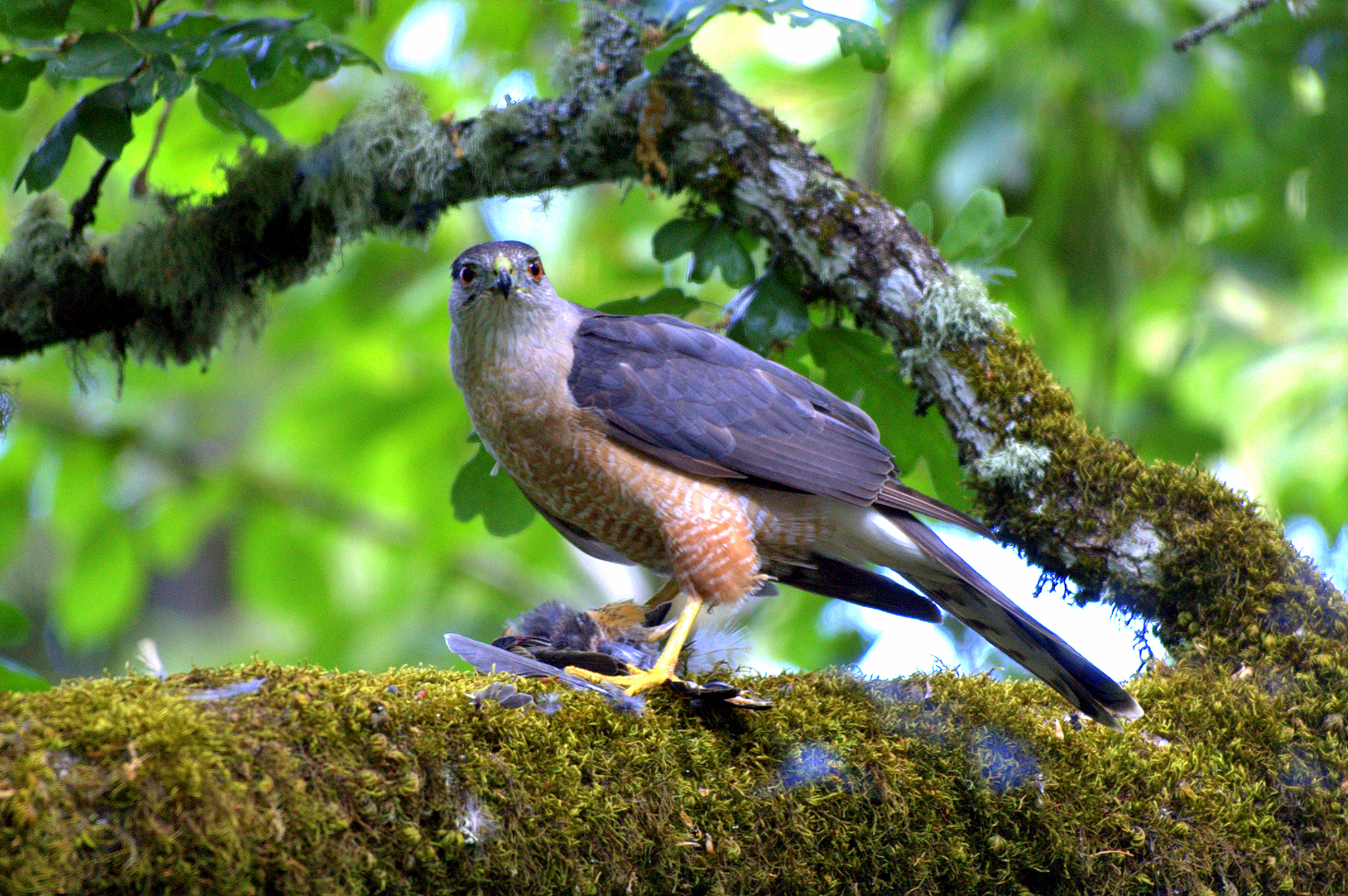 Cooper's Hawk with prey